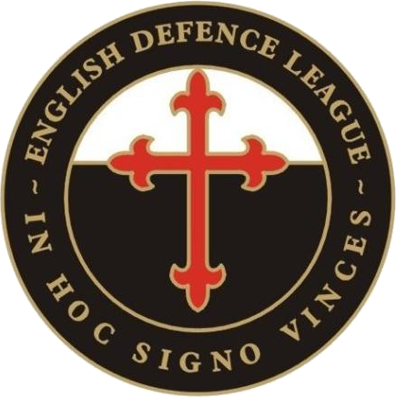 This is the badge of the patriotic English Defence League. An Anti-Islamic street movement founded in Luton in 2009